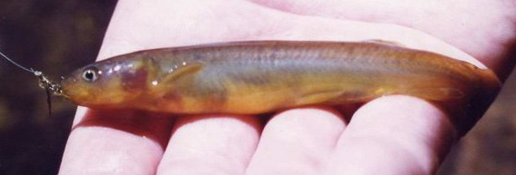 A member of the Mountain Galaxias species complex that was caught on a tiny barbless wet fly in an upland stream that was free of exotic Trout at the time of capture. This upland stream has since been illegally stocked with exotic Rainbow Trout, resulting in the extinction of this Mountain Galaxias population; a pattern that been repeated in upland streams across south-eastern Australia. February/March 1999. Copyright held by the uploader and waived under GFDL.